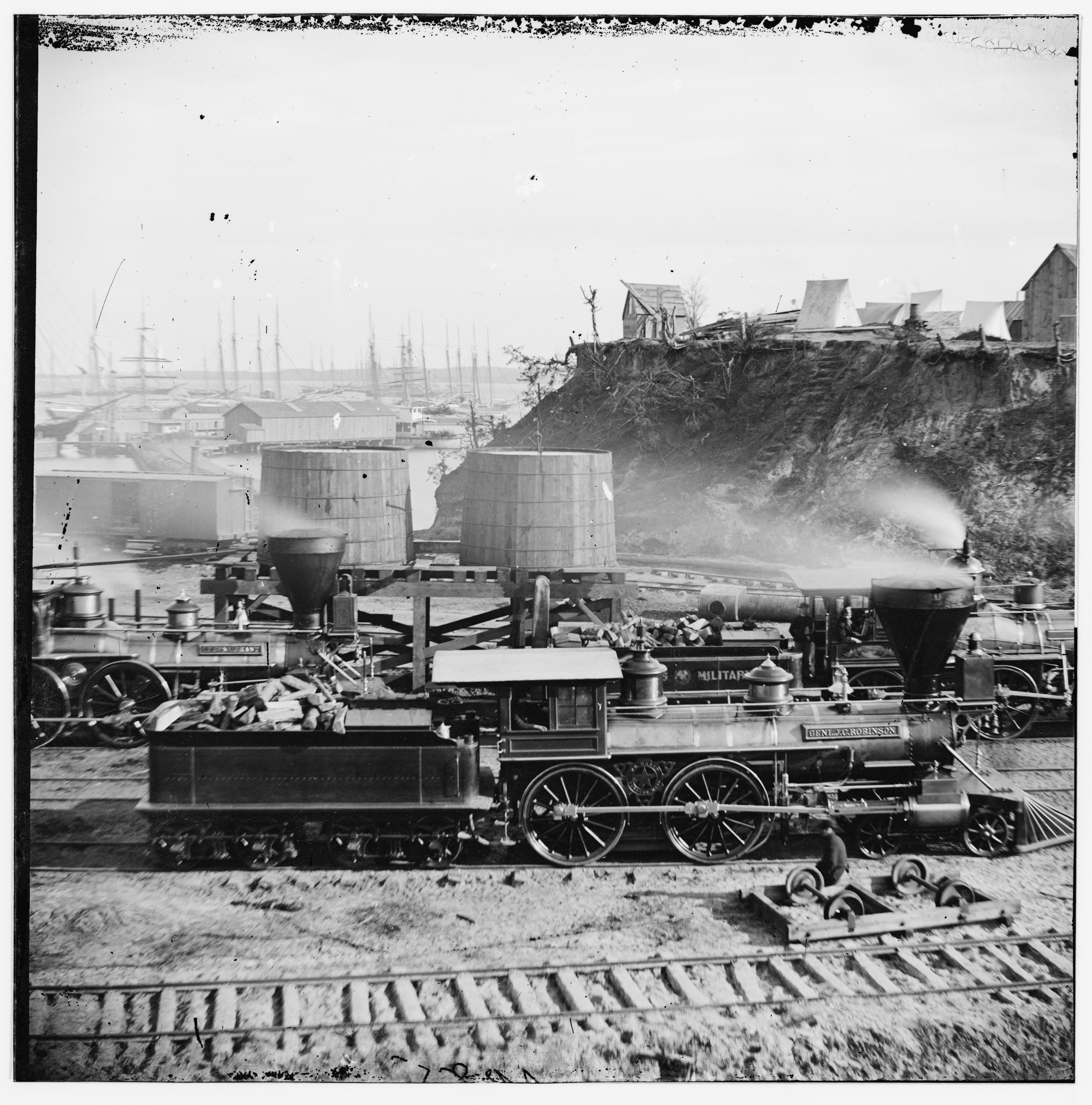 [City Point, Va. "Gen. J. C. Robinson" and other locomotives of the U.S. Military Railroad], Photograph from the main eastern theater of war, the siege of Petersburg, June-1864-April 1865.